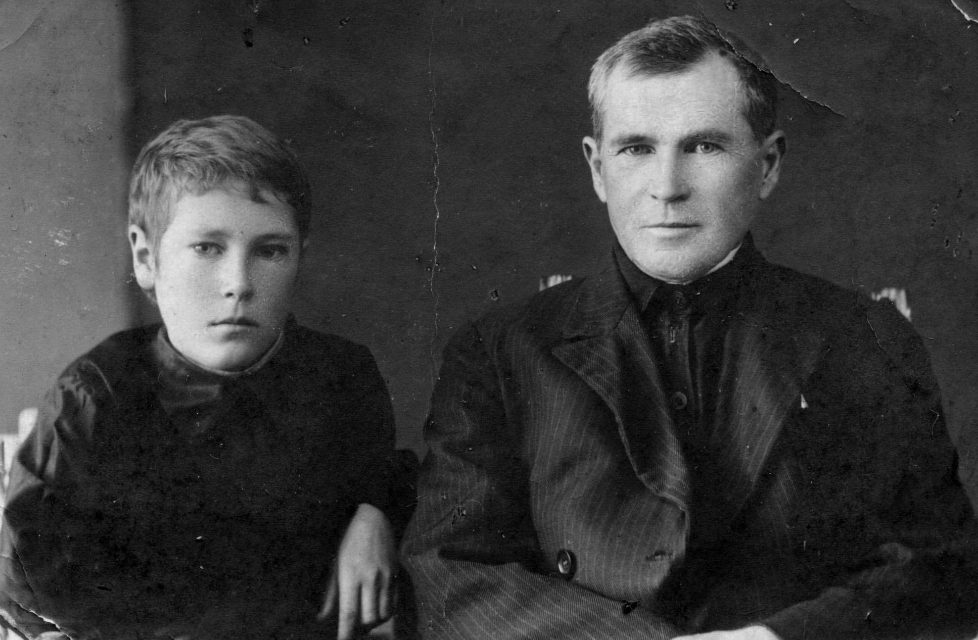 Russian gardener Bedro Ivan Prokhorovich and his son Bedro Alexey Ivanovich (later Vigorov Leonid Ivanovich)